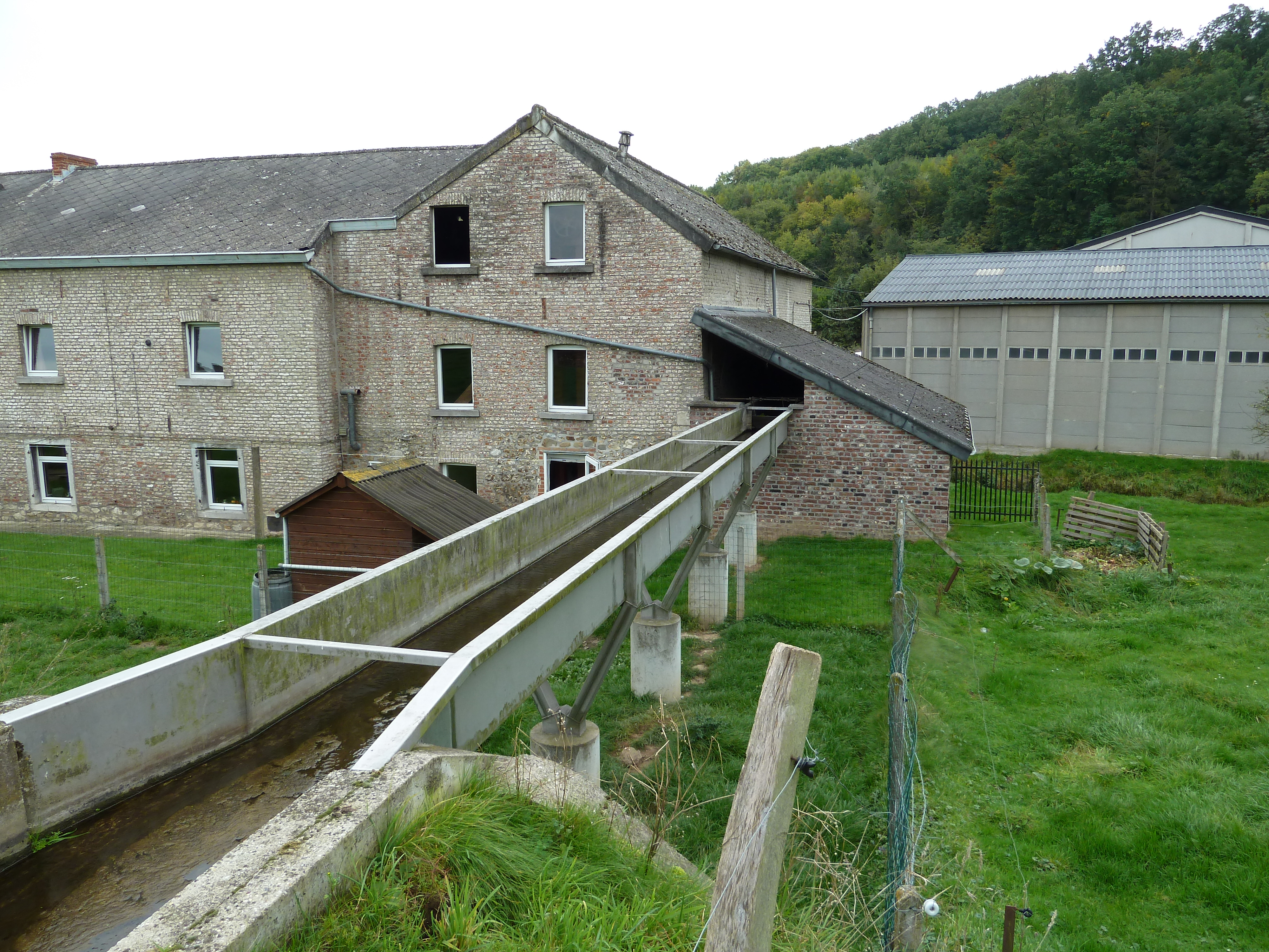 Construction of watermill "Molen van Lhomme", 's Gravenvoeren, Belgium